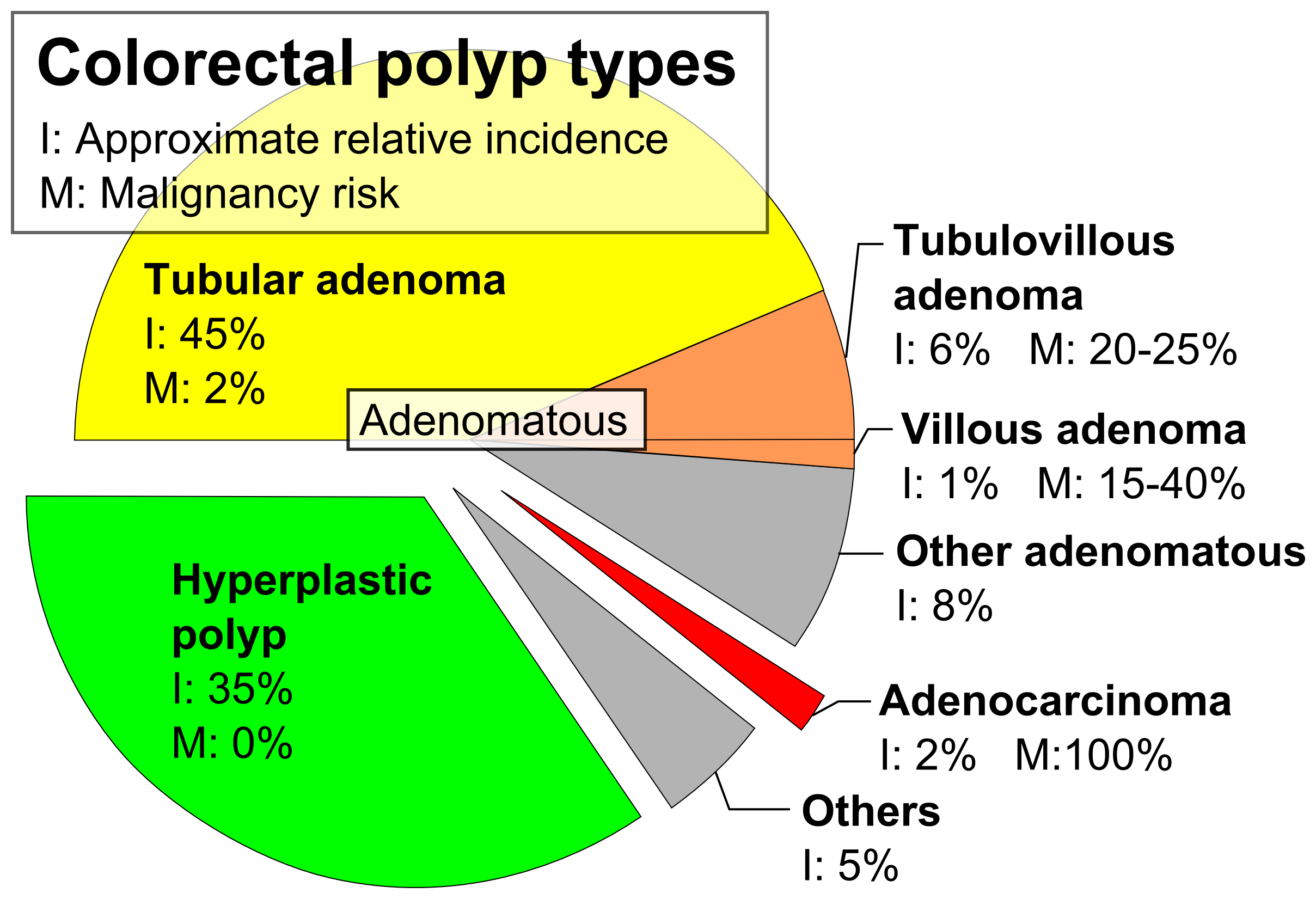 Pie chart of Colorectal polyp|colorectal polyp etiologies